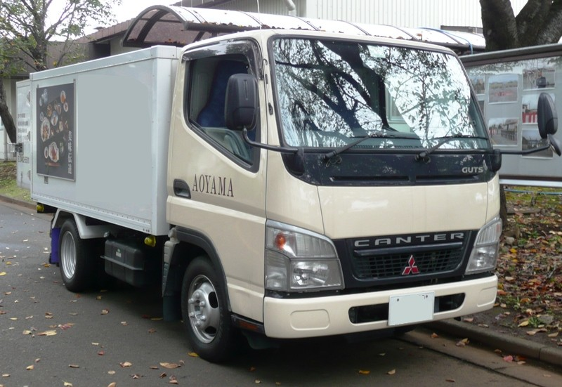 Mitsubishi Fuso Canter Guts.